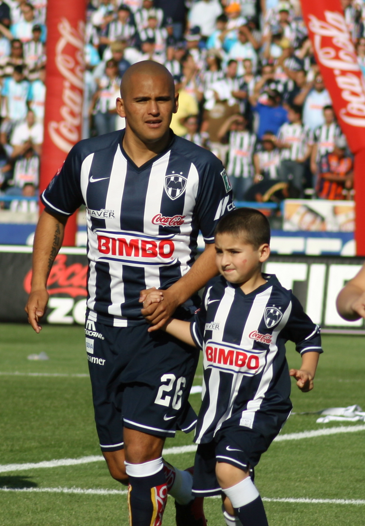 Chilean footballer Humberto Suazo from the Monterrey Football Club.